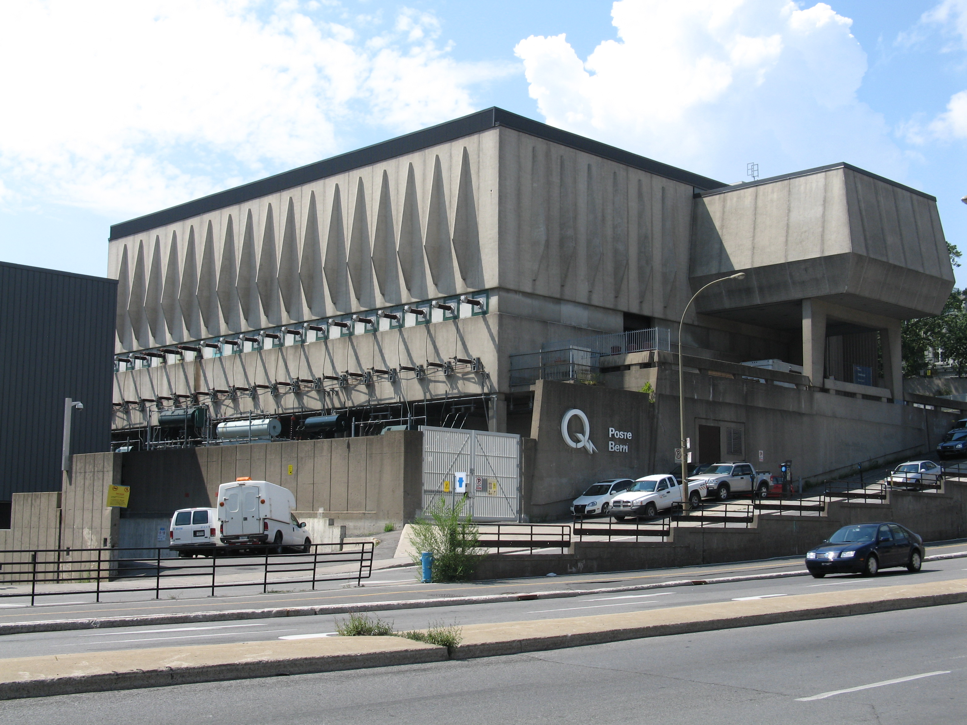 Hydro-Québec's Berri substation is located at the corner of Ontario E. and Berri streets in Montreal.